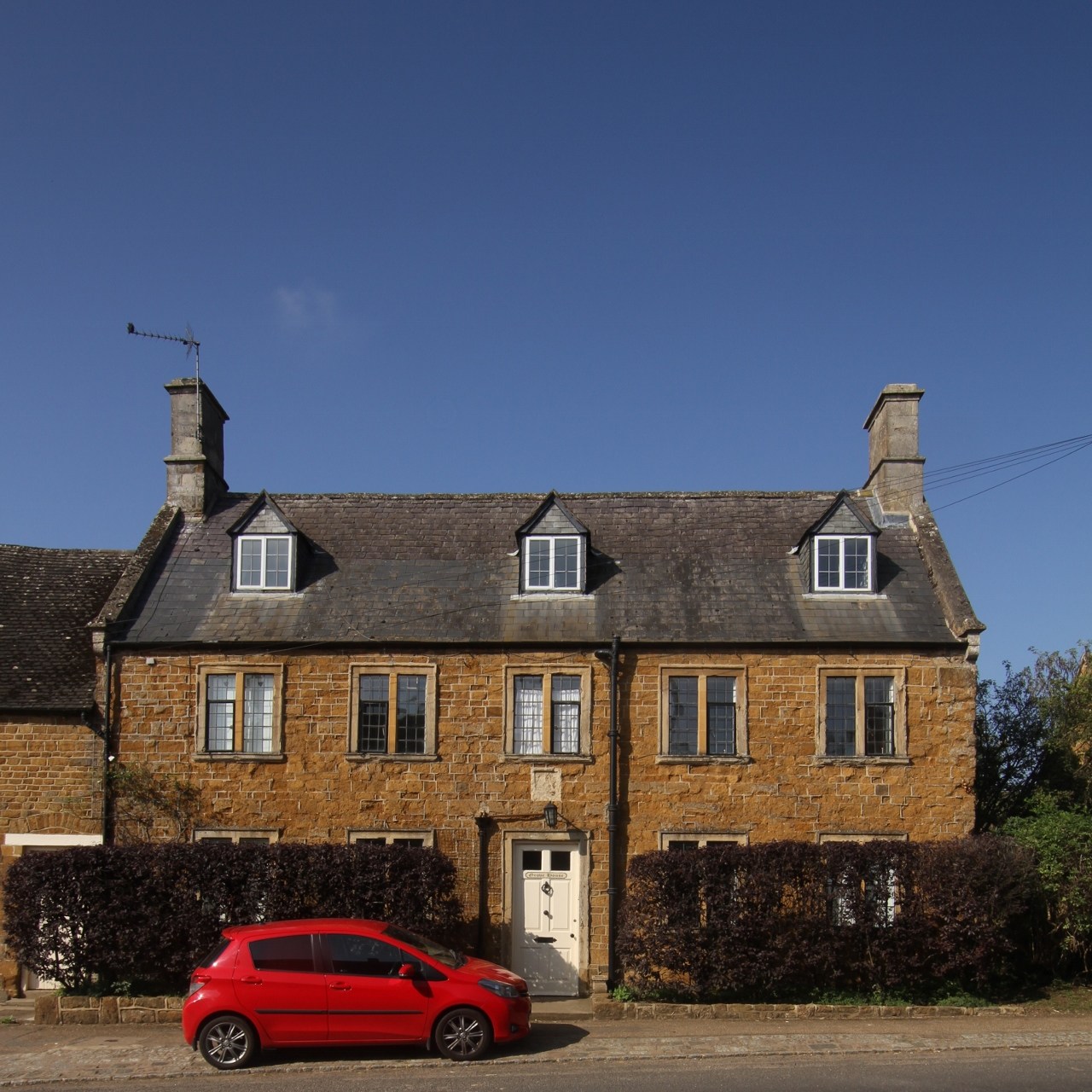 Grove House, High Street, Deddington, Oxfordshire, seen from east-northeast